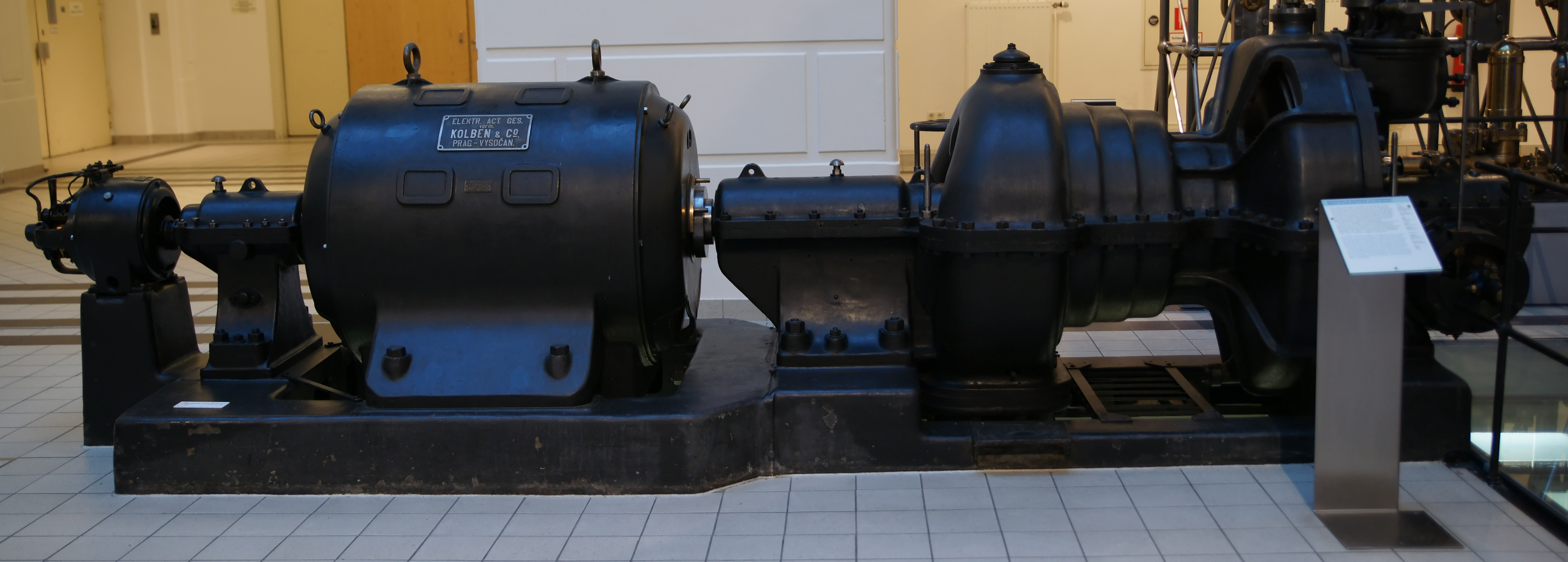 Steam turbine generator set with multistage steam turbine (right) and cylindrical AC generator (left). A tube condenser for the exhaust steam is set beneath the turbine. Turbine: System Melma-Pfenninger, made 1910 by Maschinenbau A.G., Prague, rating 331 kW, rotational speed 2000 rpm. Generator: made 1910 by Elektro Akt. Ges., Prague, rating 250 kW.